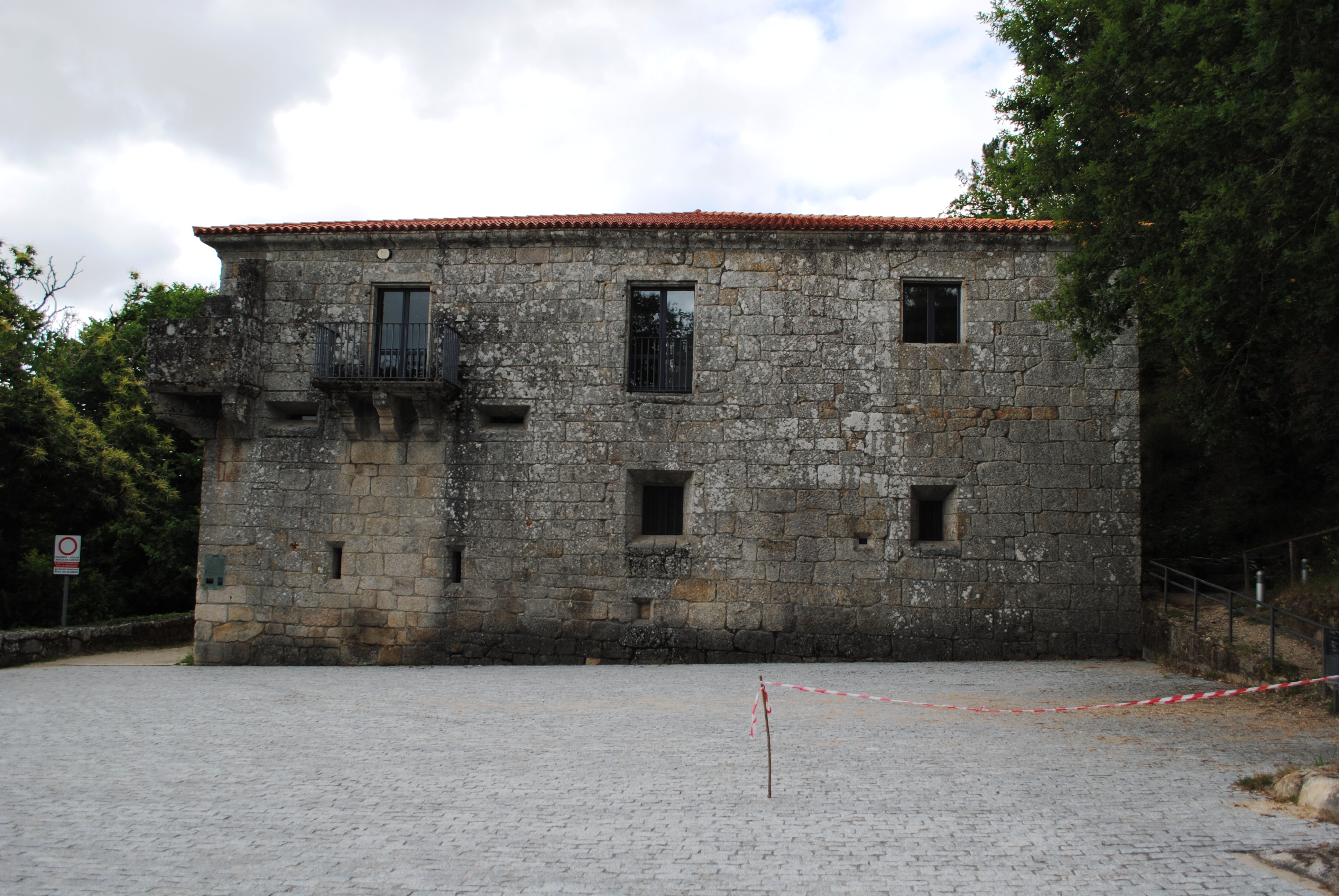 See title